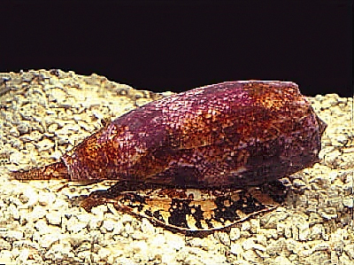 Conus geographicus (a marine snail)